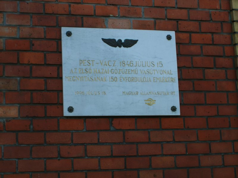 Tablet in Budapest, Western Railway Station(Nyugati Pályaudvar), for the 150th anniversay of the opening the first public railway line in Hungary